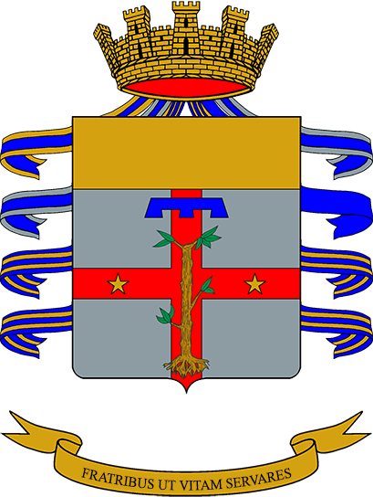 Coat of Arms of the Medical Corps; Italian Army.